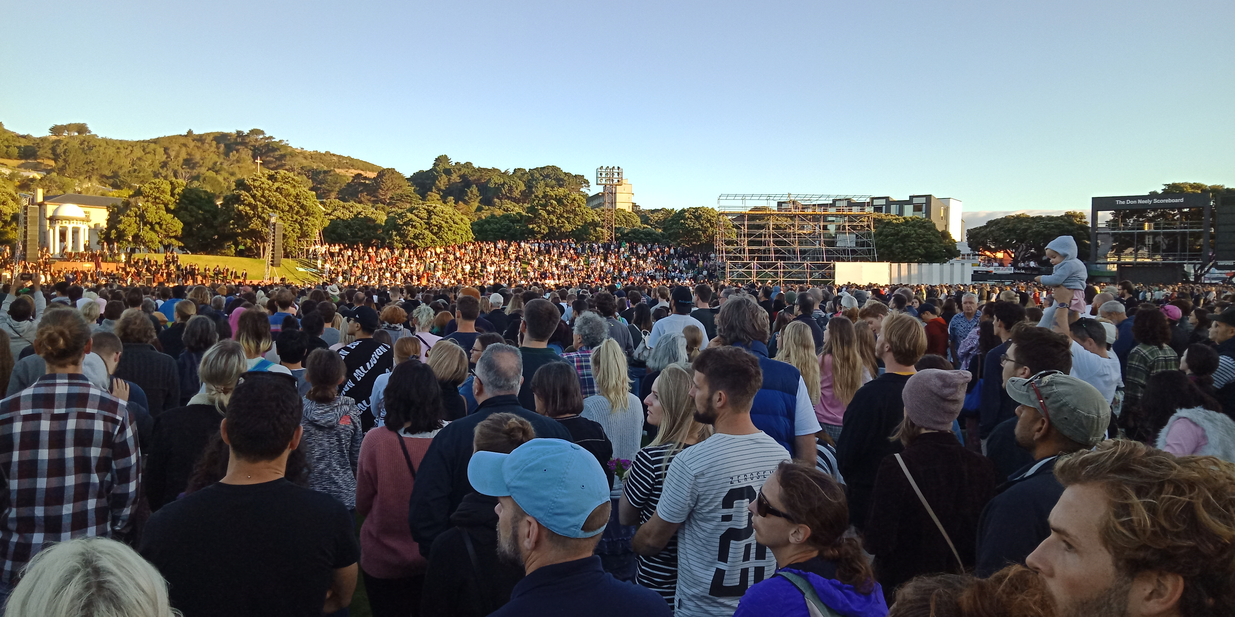 In the evening on 17 March 2019, over 11,000 people in Wellington, Aotearoa New Zealand, gathered in the Basin Reserve for a vigil for the victims of the terrorist attack on mosques in Christchurch on Friday, 15 March 2019. This photo was taken at the end of the vigil when everyone was standing.